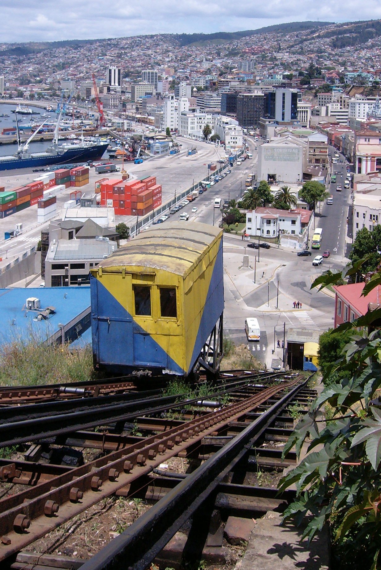 Picture of Valparaiso (Chile), focussing on one of the funiculars (ascensores in Chilean Spanish) that link the harbor region to the hills. This is the "Artillería" funicular